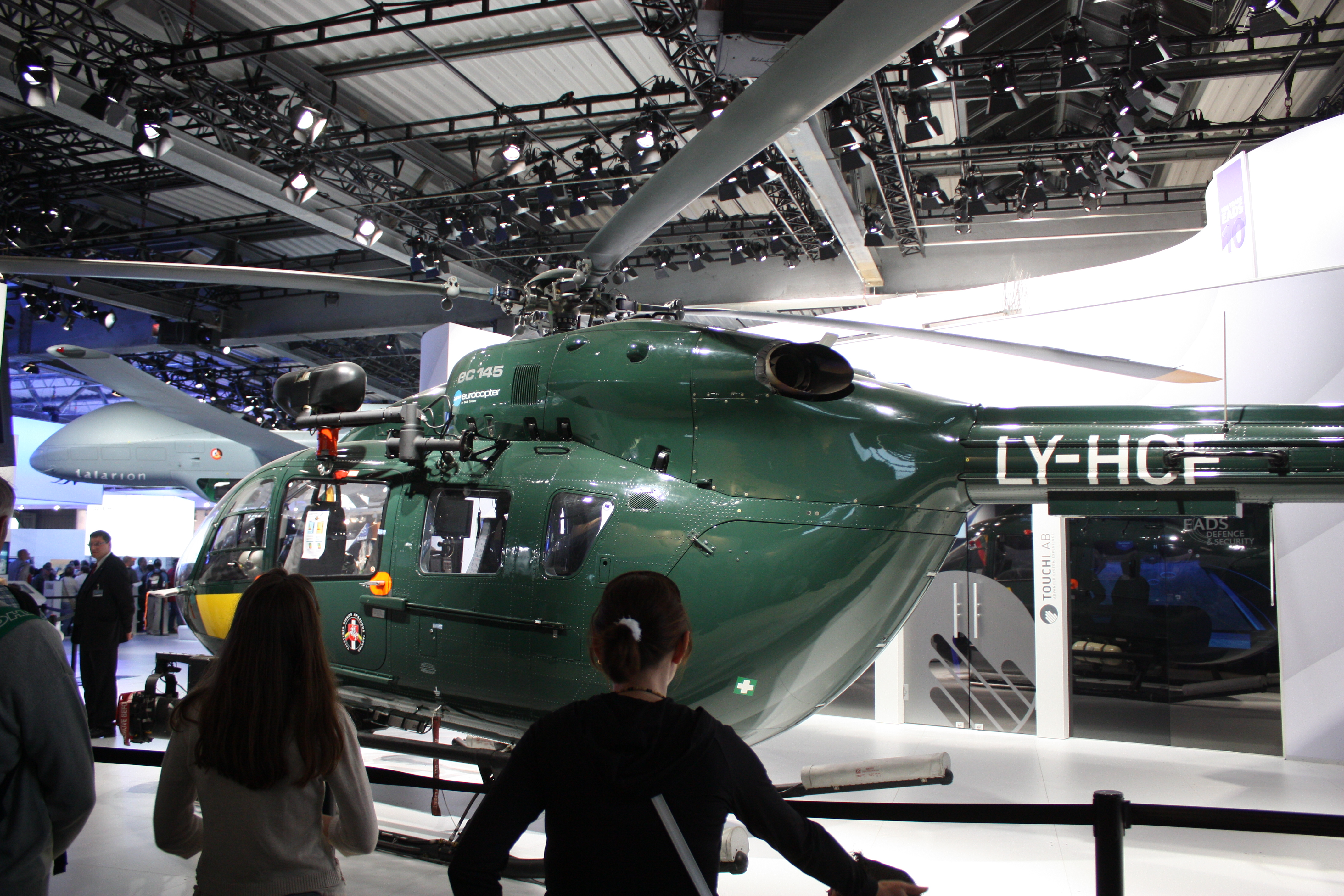 An Eurocopter EC 145 of the Lithuanian State Border Guard Service on display at ILA 2010.